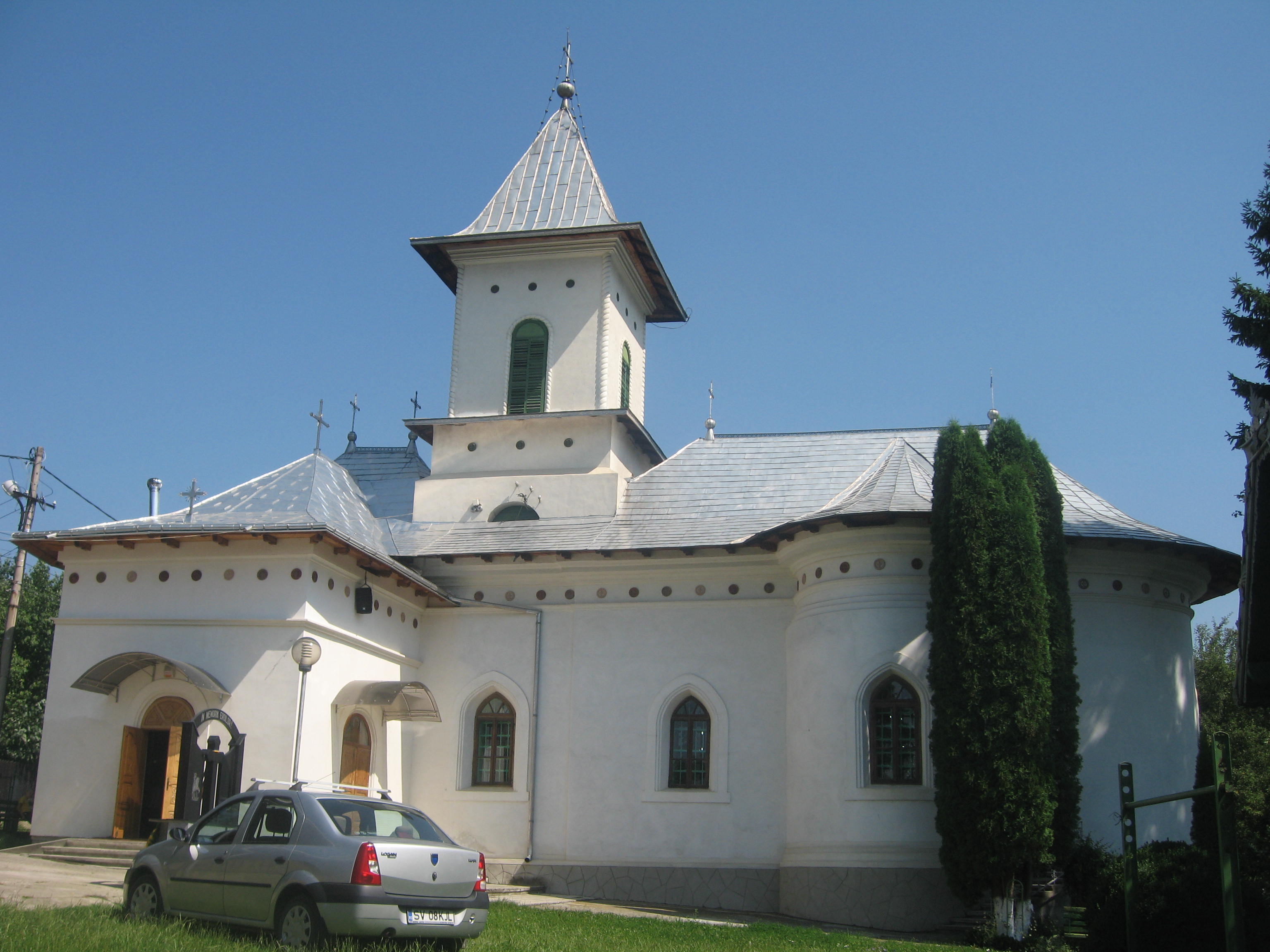 Holy Trinity Church in Burdujeni, Suceava.